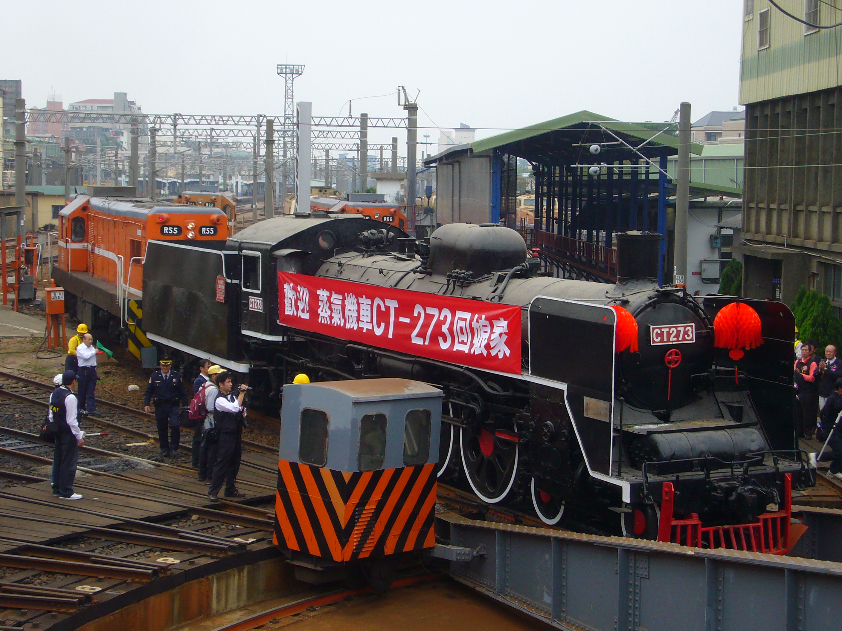 CT273 steam locomotive of Taiwan Railway Administration was conveyed to the roundhouse in Changhua Station on Feb. 2, 2010.